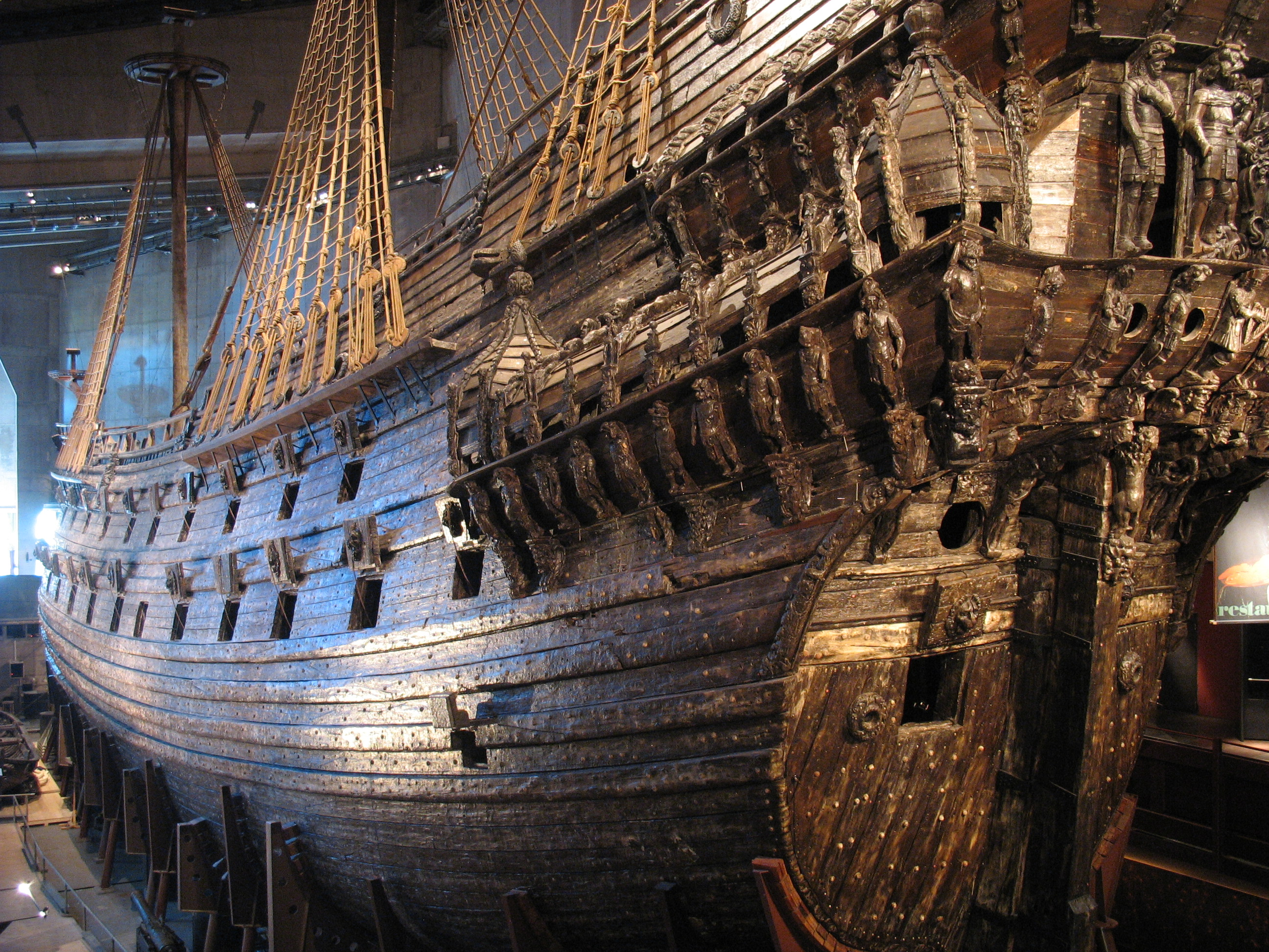 The 17t century warship Vasa seen from port.